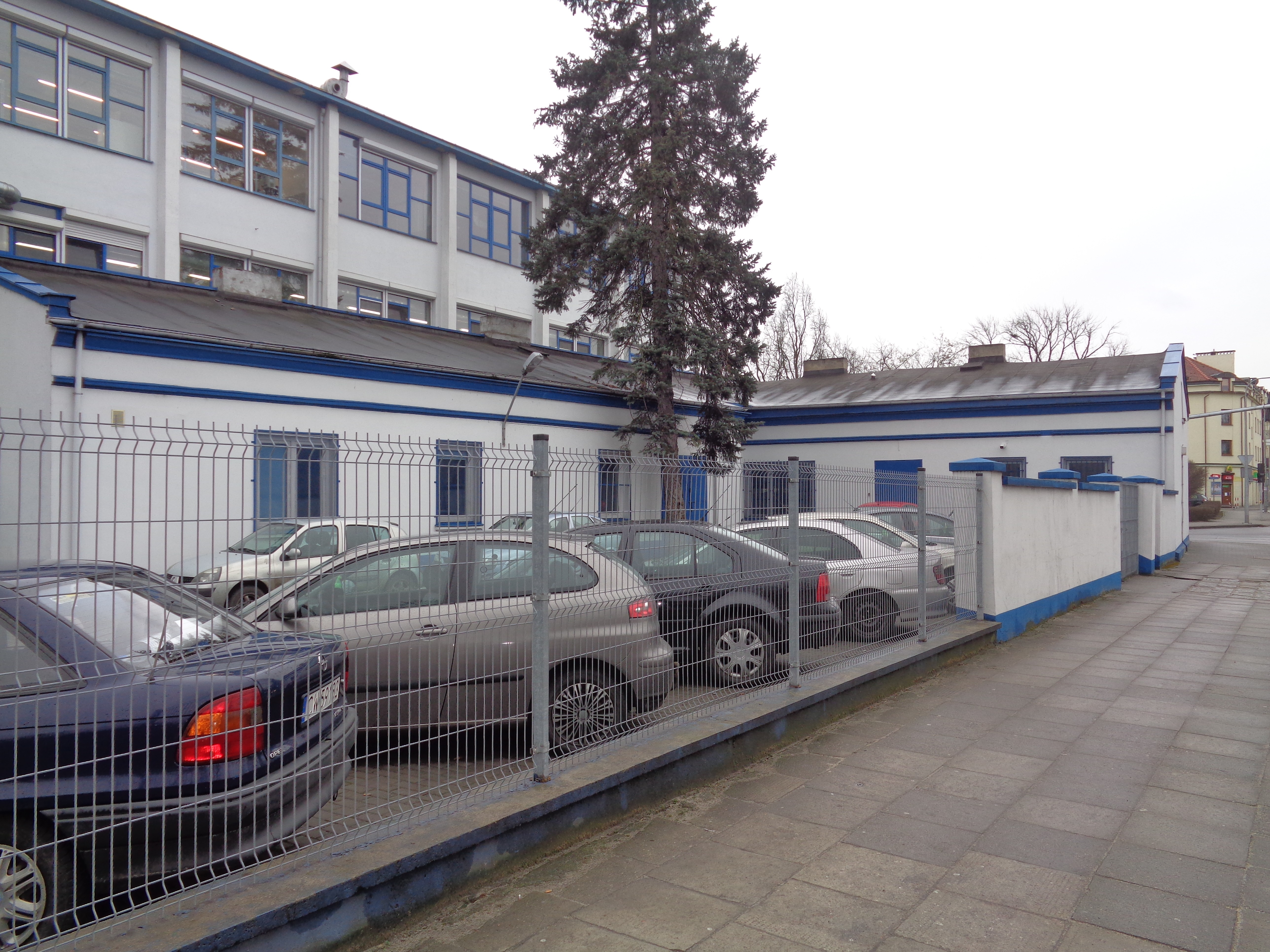 Buildings, where Ignacy Ciechurski in 1916 year founded manometer factory named of himself. Factory had been nationalized and expanded, transform to the Mera factory. Later it was called Kuyavian Manometer Factory. Nowadays it is WIKA factory.